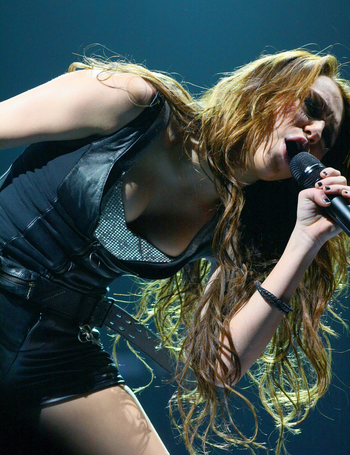 Miley Cyrus during the wonder world Concert in Detroit, Michigan.